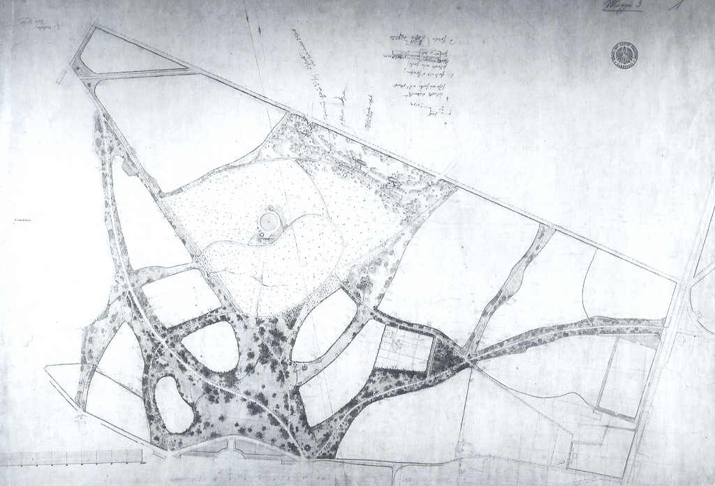 plan of Ruinenberg, Potsdam, Germany